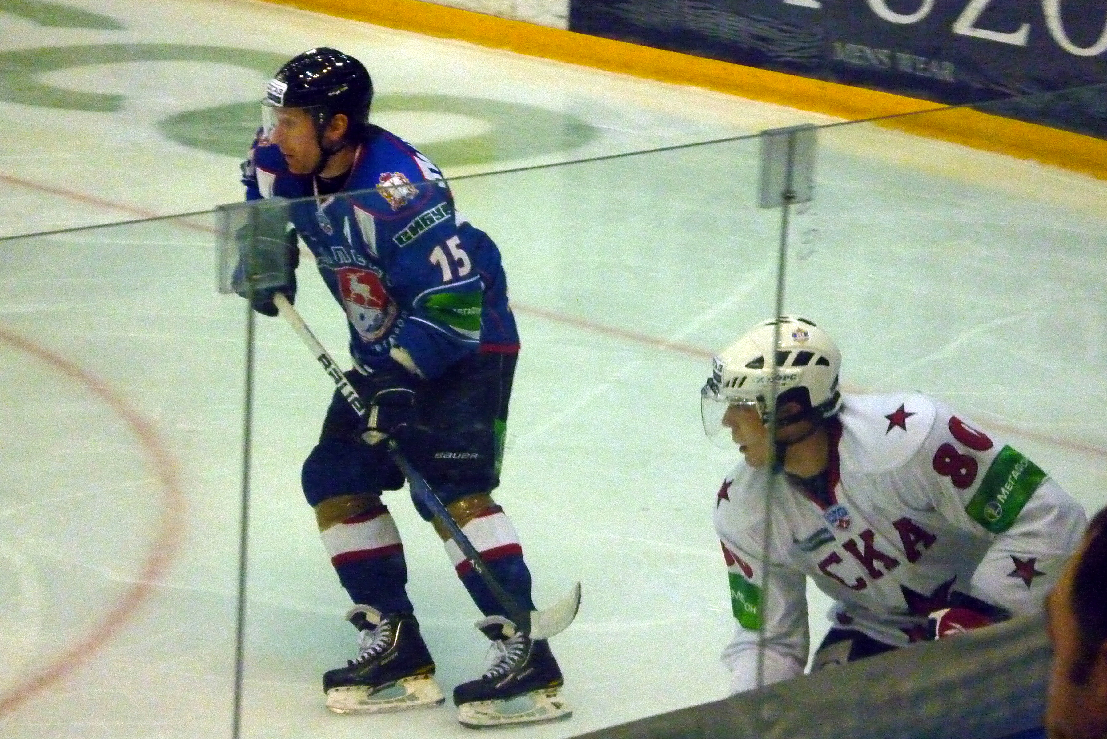 Andrei Nikitenko (blue) and Mattias Weinhandl (white)